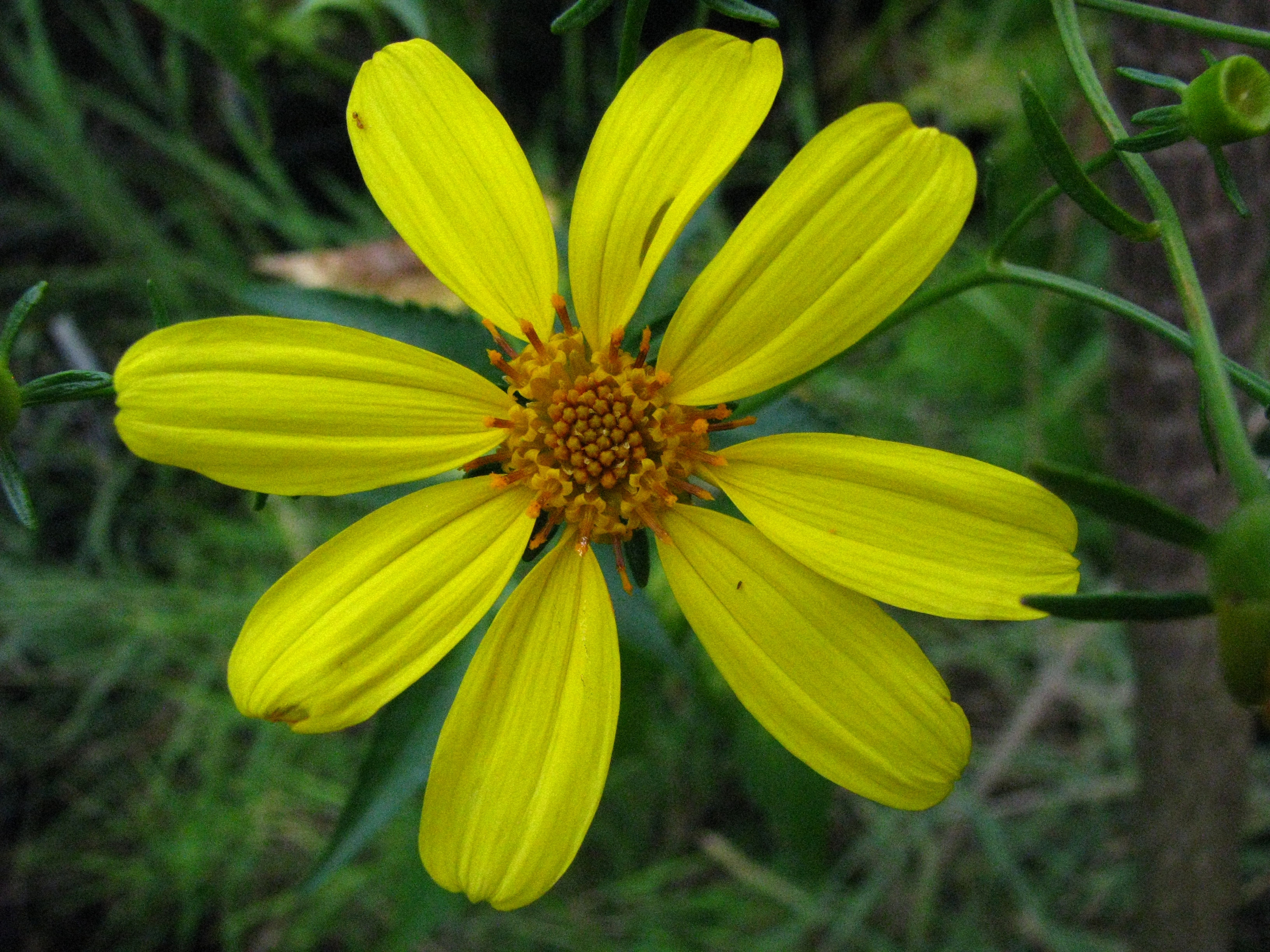 Koʻokoʻolau or Waianae kookoolau Asteraceae Endemic to the Hawaiian Islands (Oʻahu only) Rare Oʻahu (Cultivated)